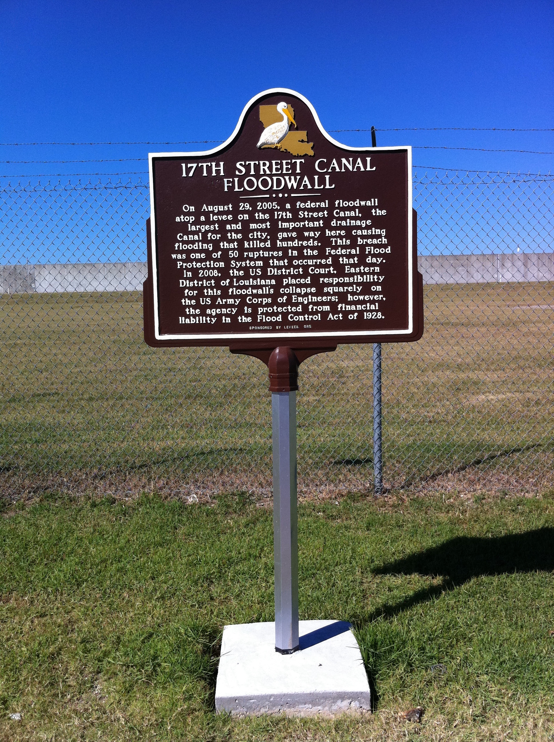 Louisiana State Historic Plaque at the site of the 17th Street Canal levee breach in New Orleans